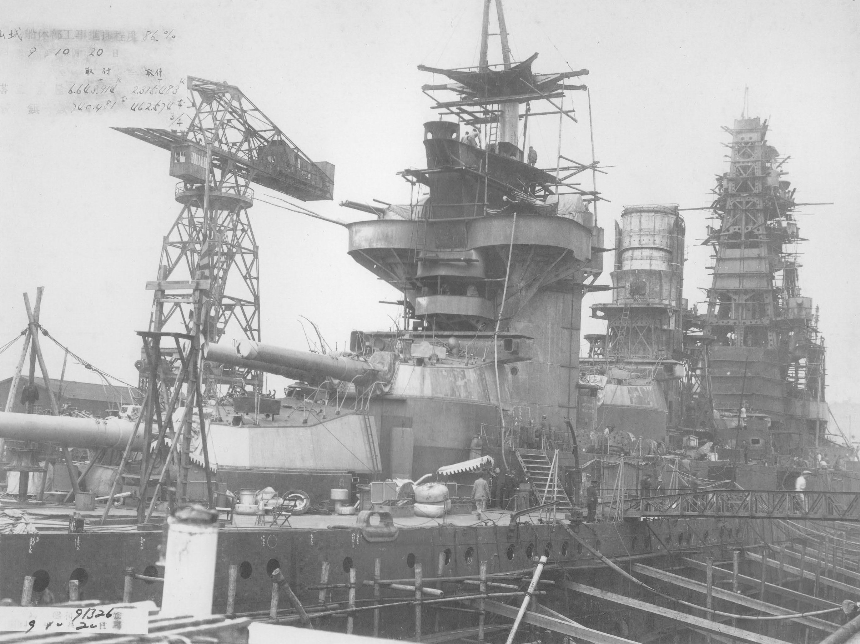 Imperial Japanese Navy battleship Yamashiro under rennovation at Yokosuka, Japan.